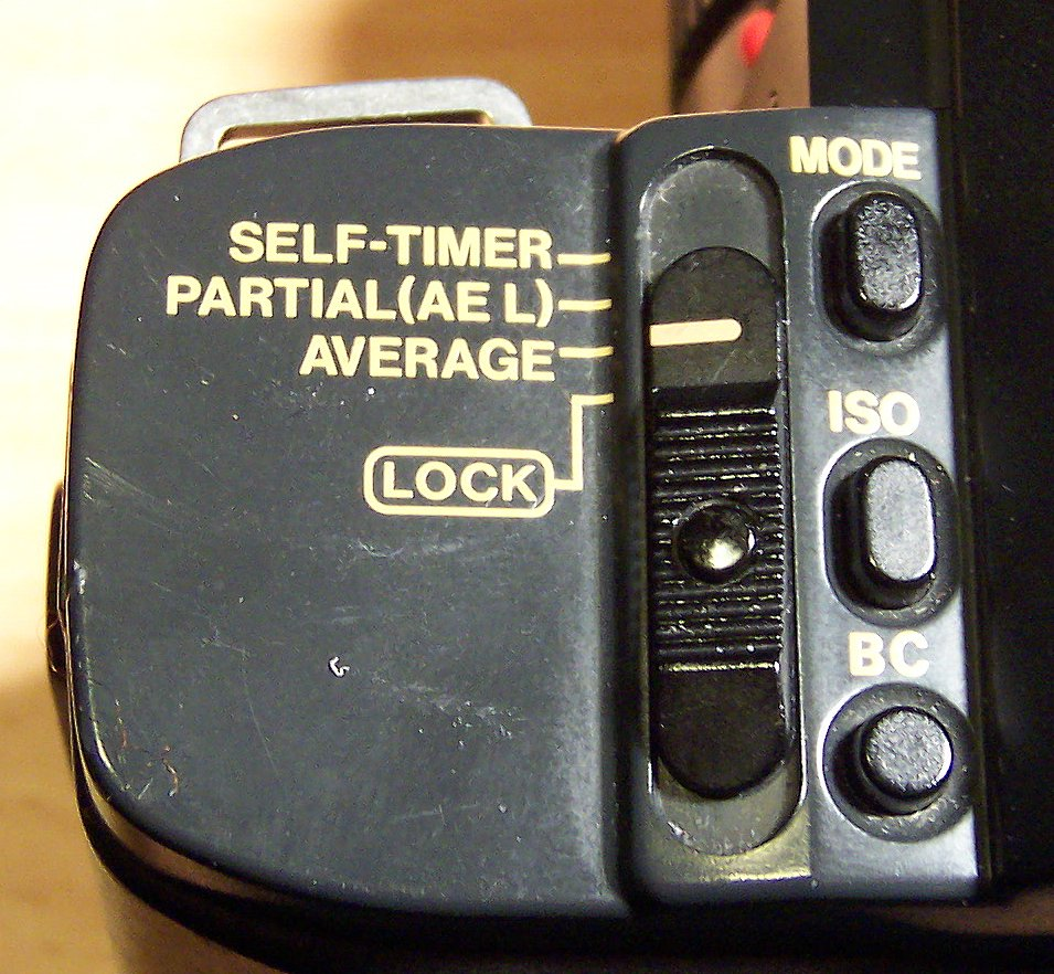 Canon T70 single-lens reflex camera mode switch control. Photo by the uploader (User:Morven.